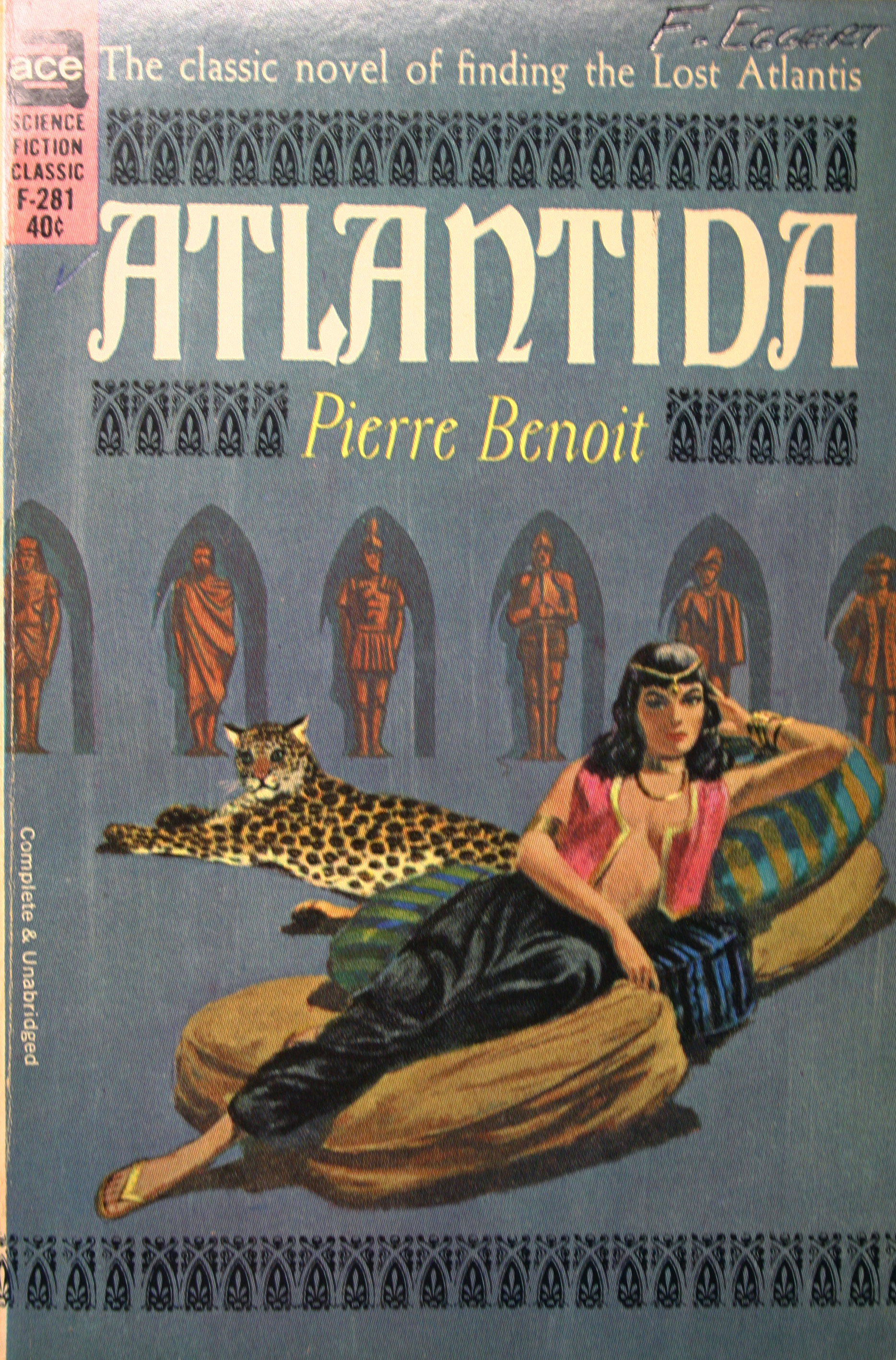 This image is of the back cover of the pulp fiction book, titled 'Atlantida', by Pierre Benoit. Published in 1920 No records pertaining to this title in either Stanford DB or DB. According to copyright notice on inside cover, there is no mention of either a cover-artist or copyright information pertaining to the copyright artist, simply copyright 1920 "Dudfield". The book is offered as an e-text with the same covert art by Project Gutenberg - Europe, as well as other places. Assuming safe to mark as PD-US-not-renewed